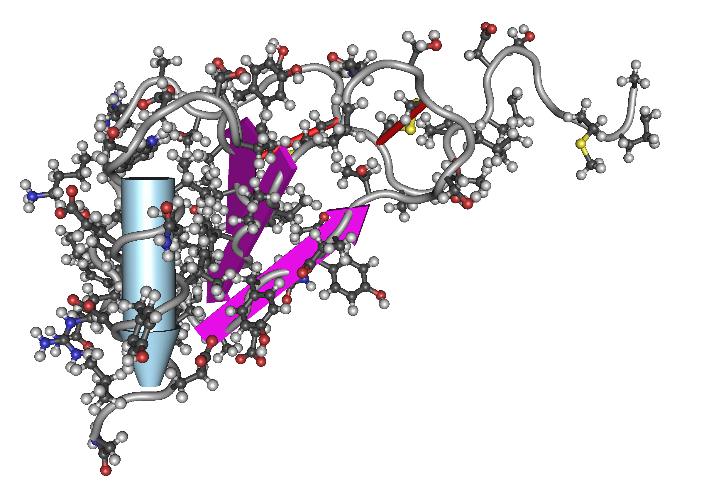 1JE4_Monomeric_Variant_Of_The_Chemokine_Mip-1beta